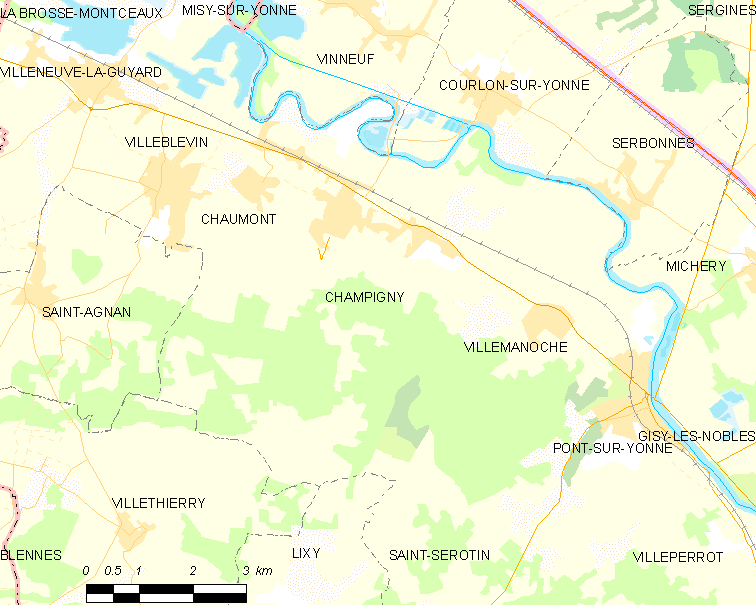 Map of French municipality Champigny